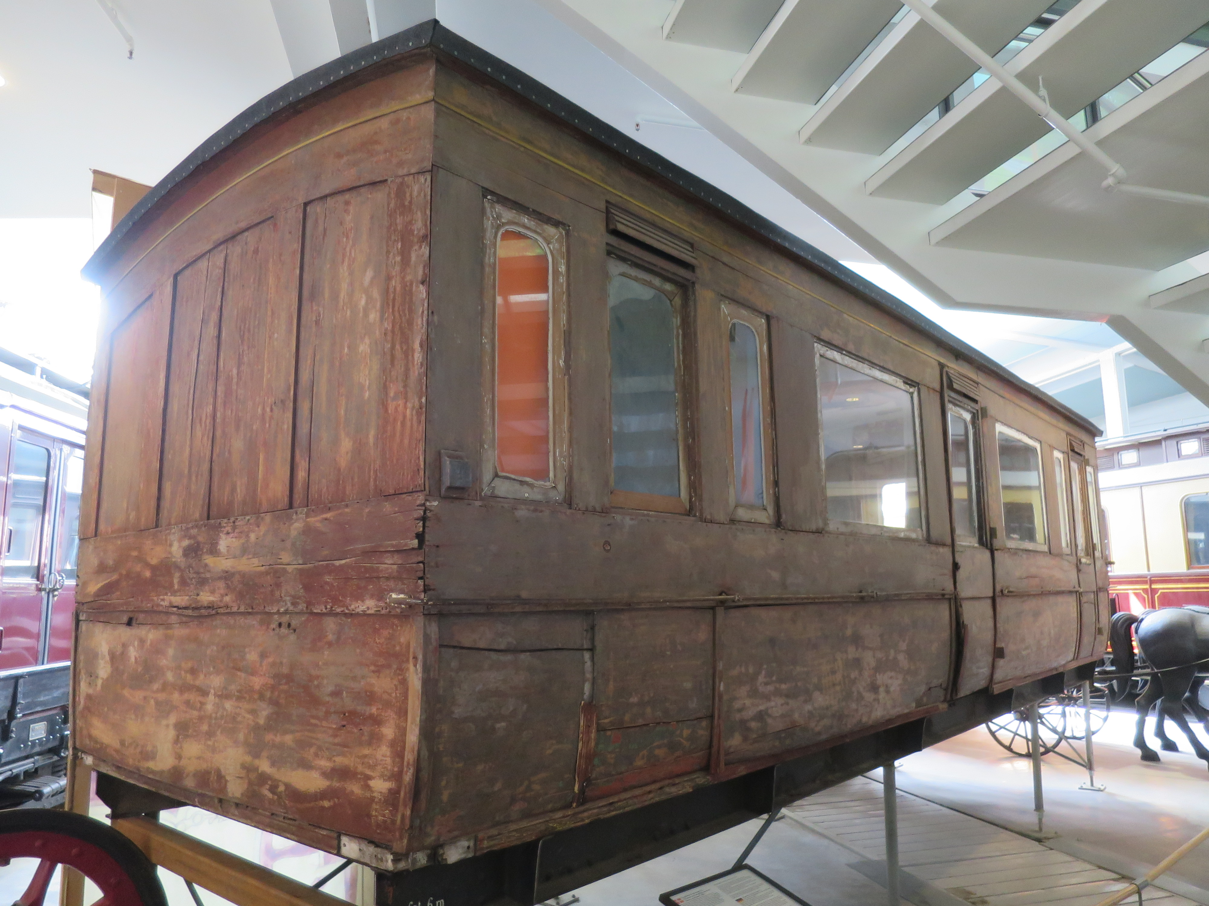 Royal saloon for the king of Danmark in Schleswig railways of 1854